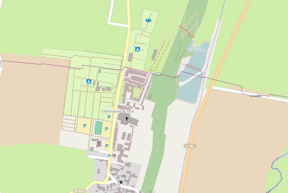 Taizé. A map of the village Taizé in Burgundy in France, Taizé Map of: Taizé¤.